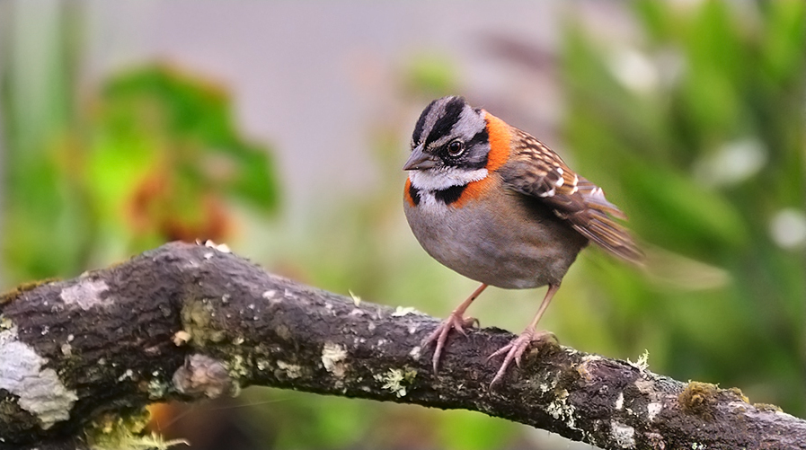 Rufous-collared Sparrow, Zonotrichia capensis from PERU